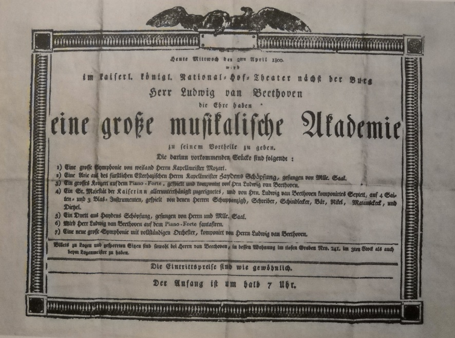 Beethoven's Concert in 1800